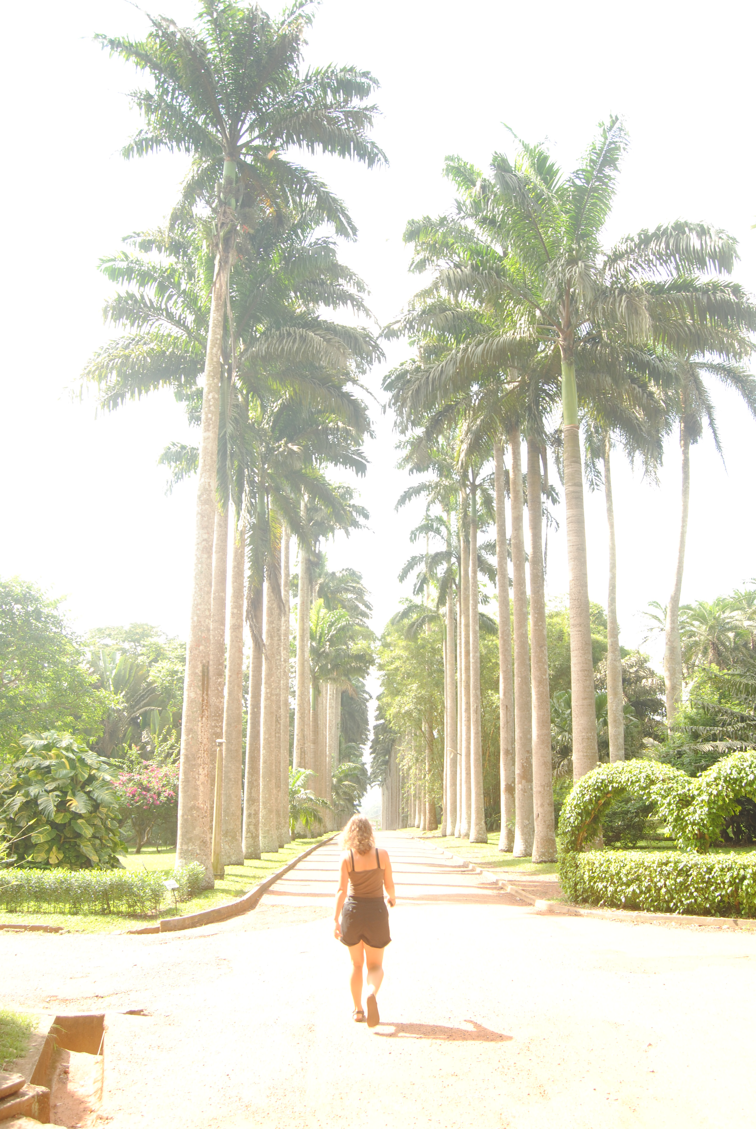 Cuban royal palm (Roystonea regia) in Aburi, Ghana, November of 2010.